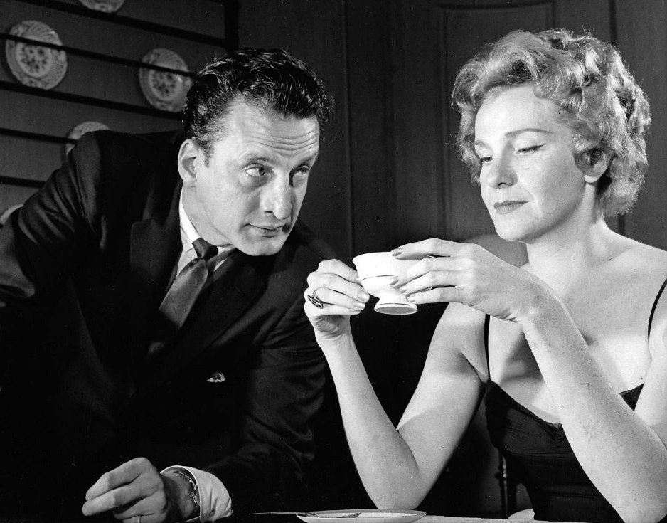 Publicity photo of Geraldine Page and George C. Scott. The caption on the back reads: "Geraldine Page plays a tormented woman and George C. Scott is her doctor in People Kill People Sometimes, the opening drama on NBC-TV Network's SUNDAY SHOWCASE, Sept 20. The colorcast series features one-hour drama specials."